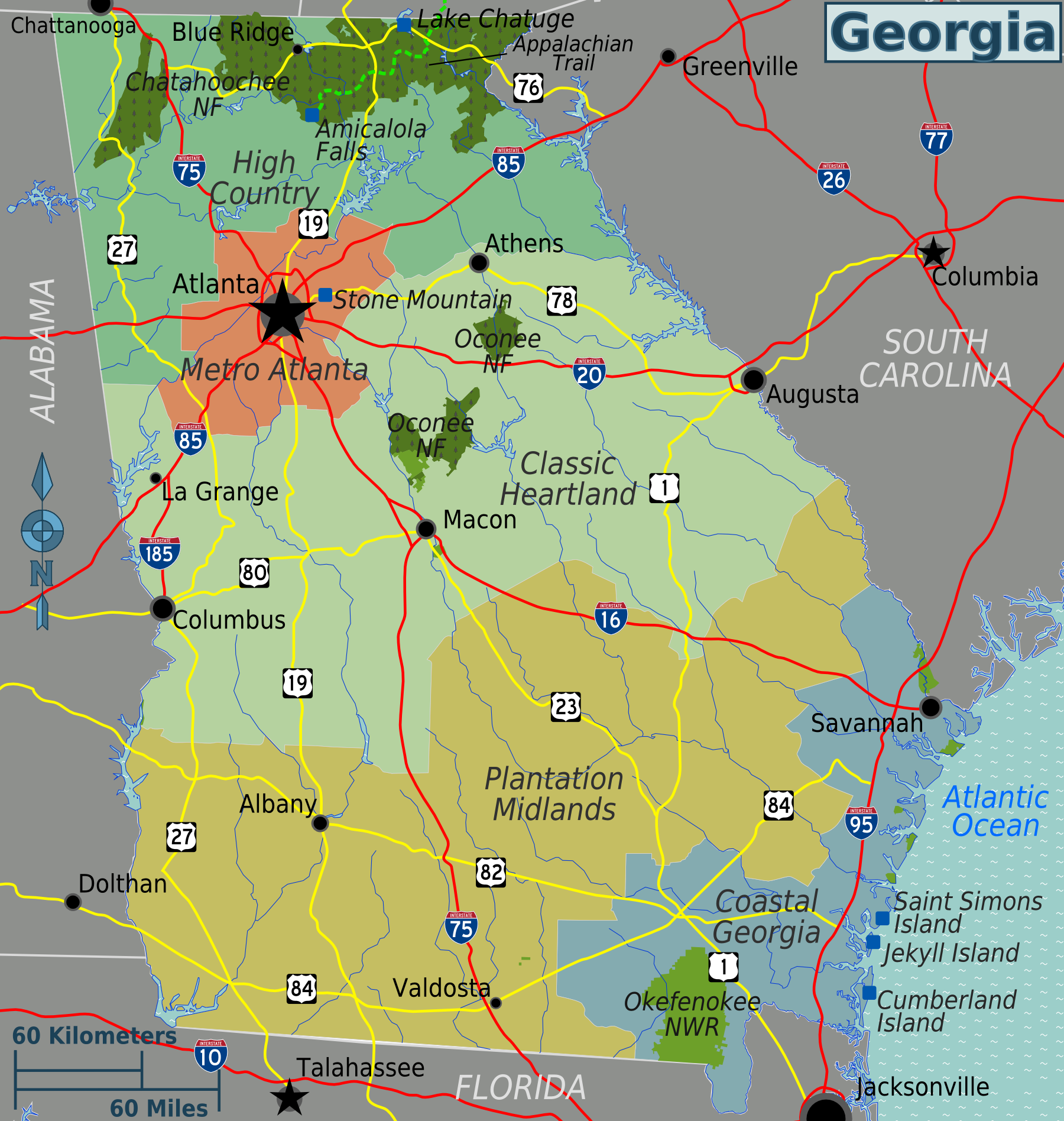 Map of the US state Georgia for use on Wikivoyage, English version